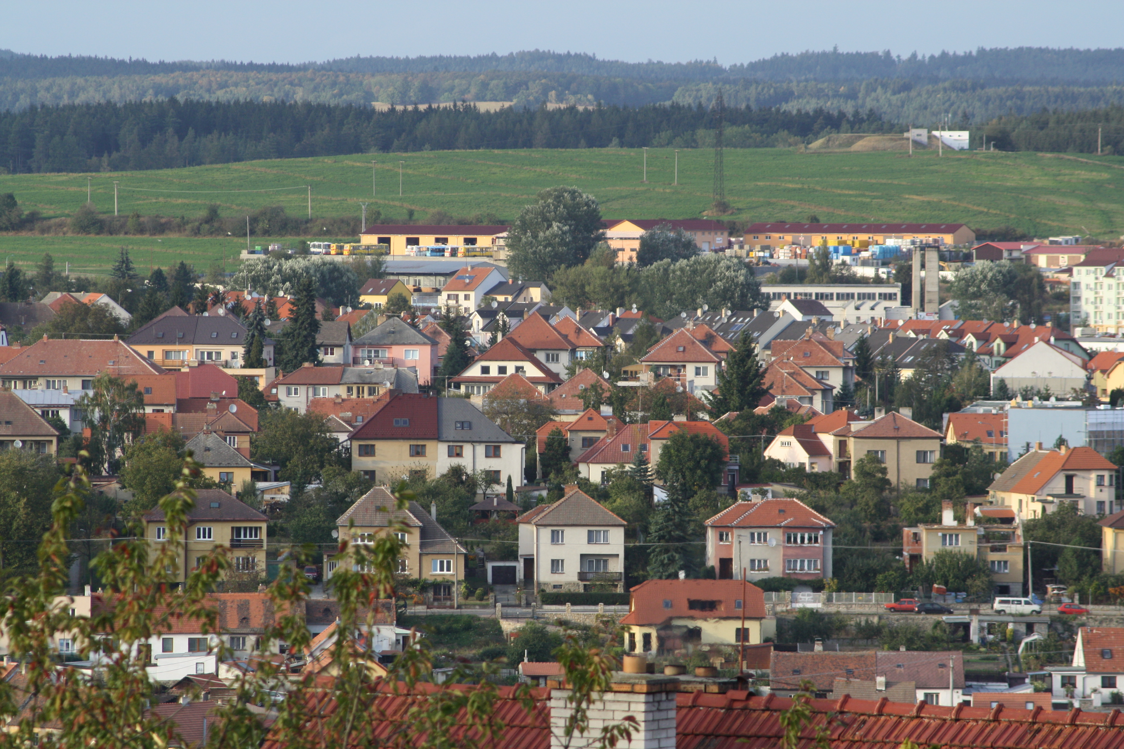 Houses of Týn in Třebíč, Czech Republic.